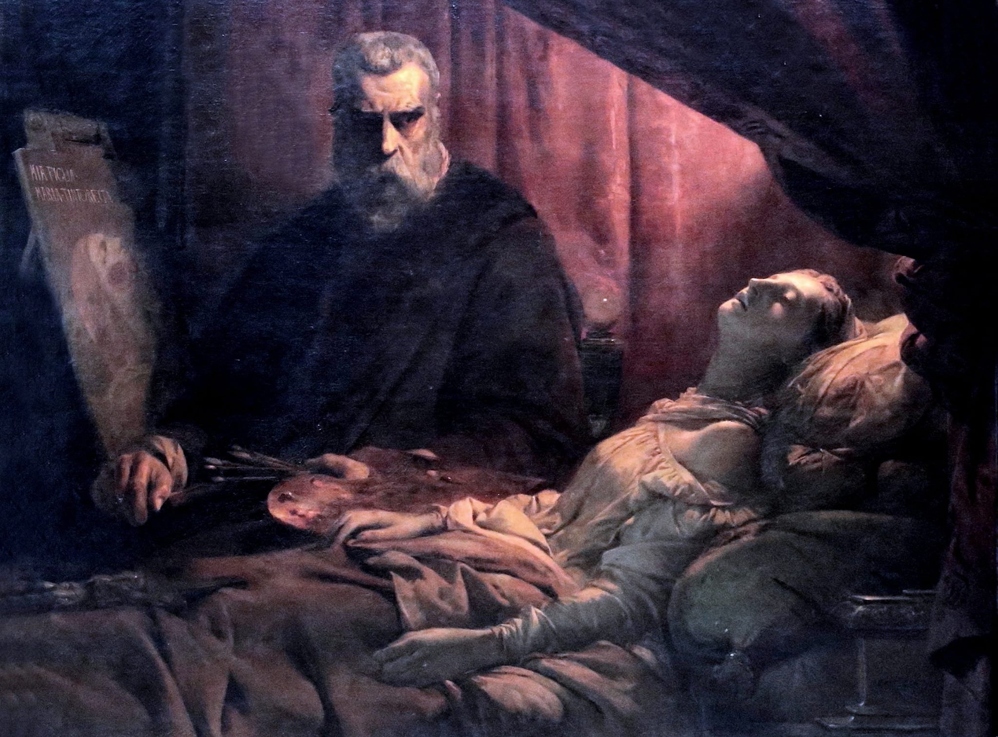 Léon Cogniet (1794-1880) Tintoretto Painting His Dead Daughter